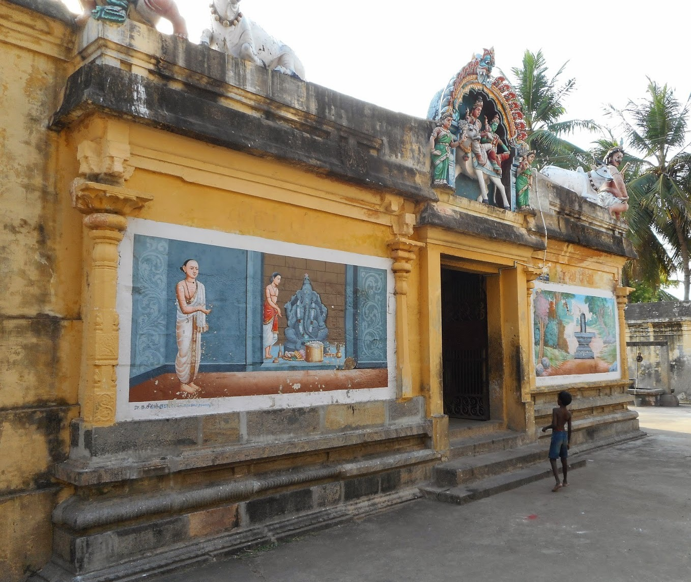 Tirunaraiyur temple திருநாரையூர் கோயில்